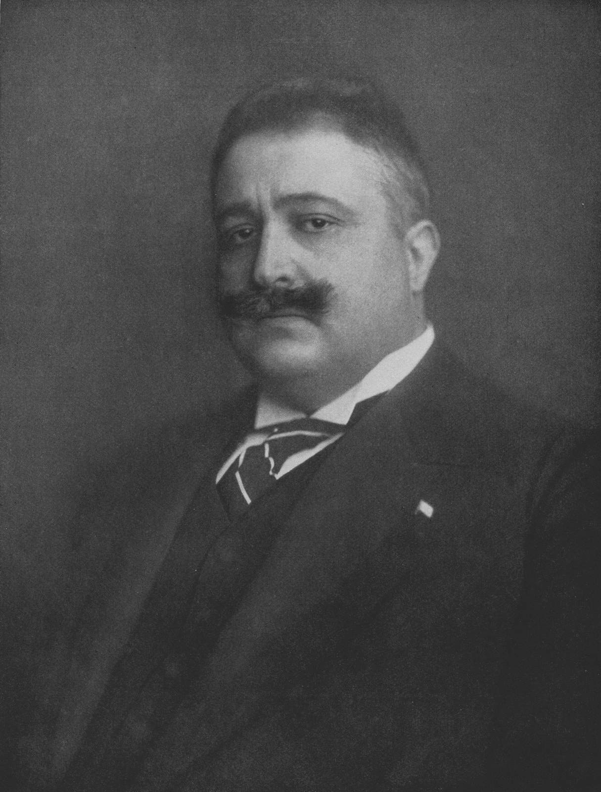 Ernst von Basserman-Jordan (17 July 1876 – 9 October 1932), a German art historian and writer, and the founder of scientific research into German watchmaking.